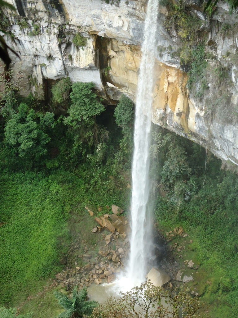 Yumbilla waterfall 895 meters in height in Cuispes, Amazonas, Peru